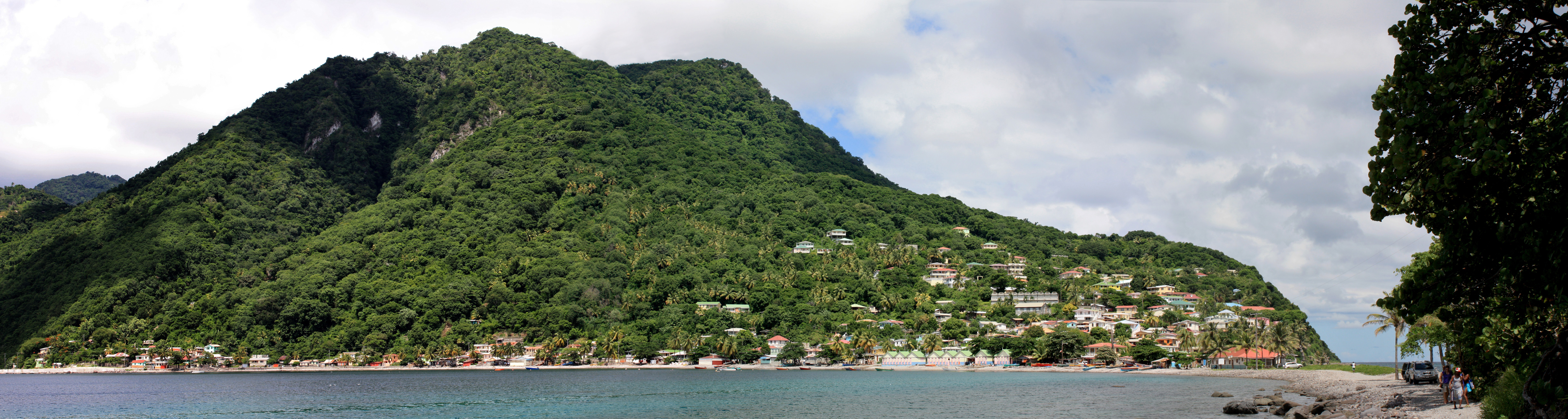 Panorama of Scotts Head village, as seen from Scotts Head peninsula across Soufrière Bay. Saint Mark Parish, Dominica.